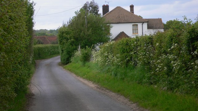 Cottage on Trotton Road near Dumpford The yellow paintwork shows this cottage to be part of the Cowdray Estate. Farther on are the roofs of Dumpford Manor Farm.